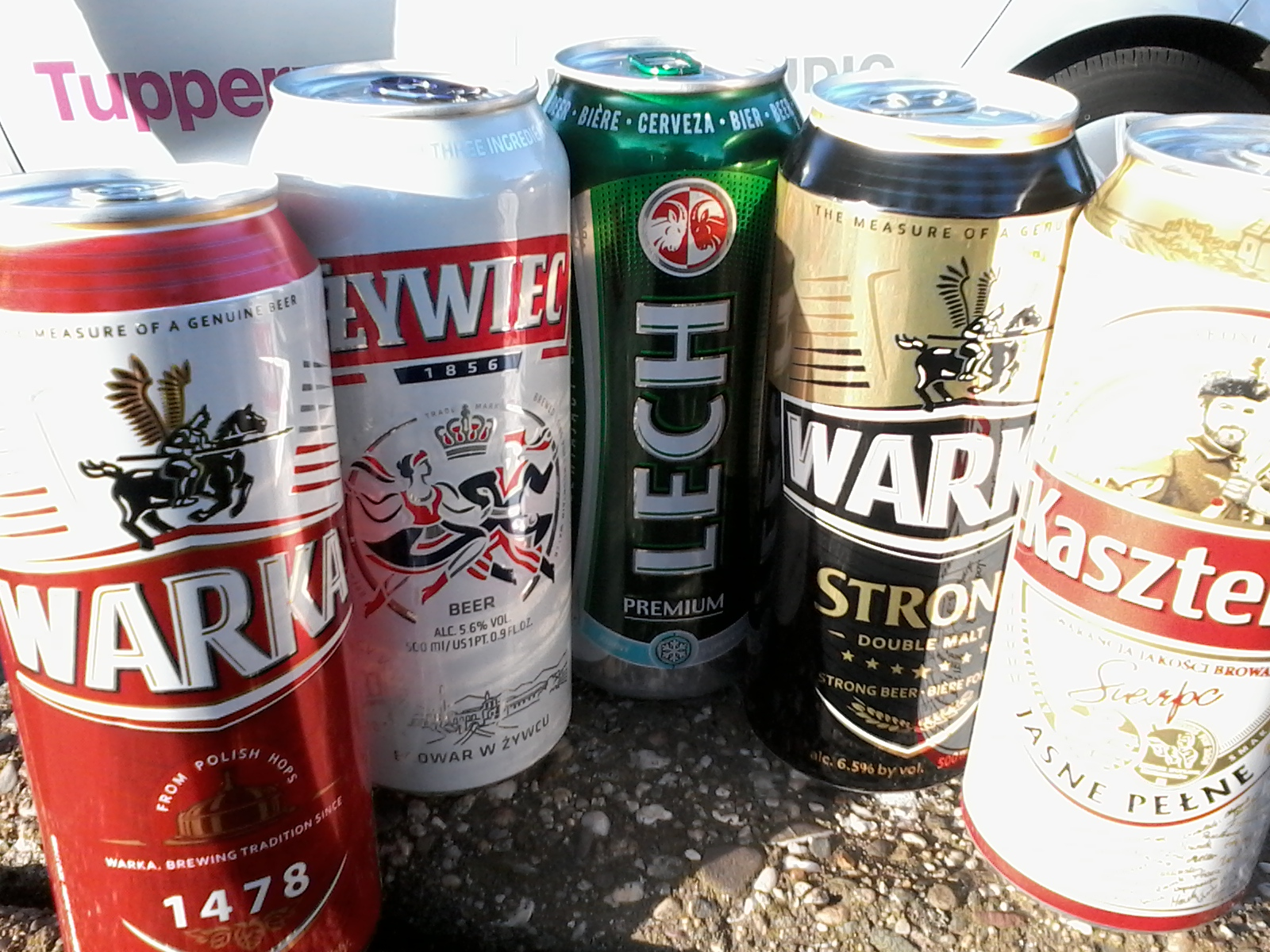 Polish beer